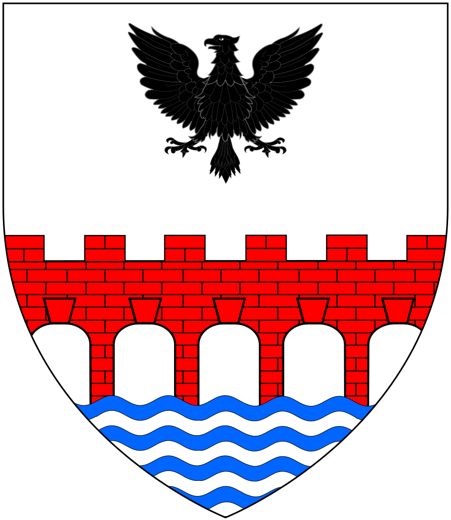 Arms of Lethbridge, as visible on mural monuments in St Mary Arches Church, Exeter, to Christopher Lethbridge (d.1670), Mayor of Exeter, and to his nephew Christopher Lethbridge (d.1713) of Westaway, in Pilton Church, North Devon: Argent, over water proper, a bridge of five arches embattled gules in chief an eagle displayed sable. See image of Pilton monument in File:ChristopherLethbridge1713PiltonChurchDevon.JPG. The arms of the Lethbridge Baronets, descendants of the latter, include in addition a tower and bezant as follows: Argent, over water proper, a bridge of five arches embattled gules and over the centre arch a turret in chief an eagle displayed sable charged on the breast with a bezant (Source: Debrett's Peerage, 1968, p.497)